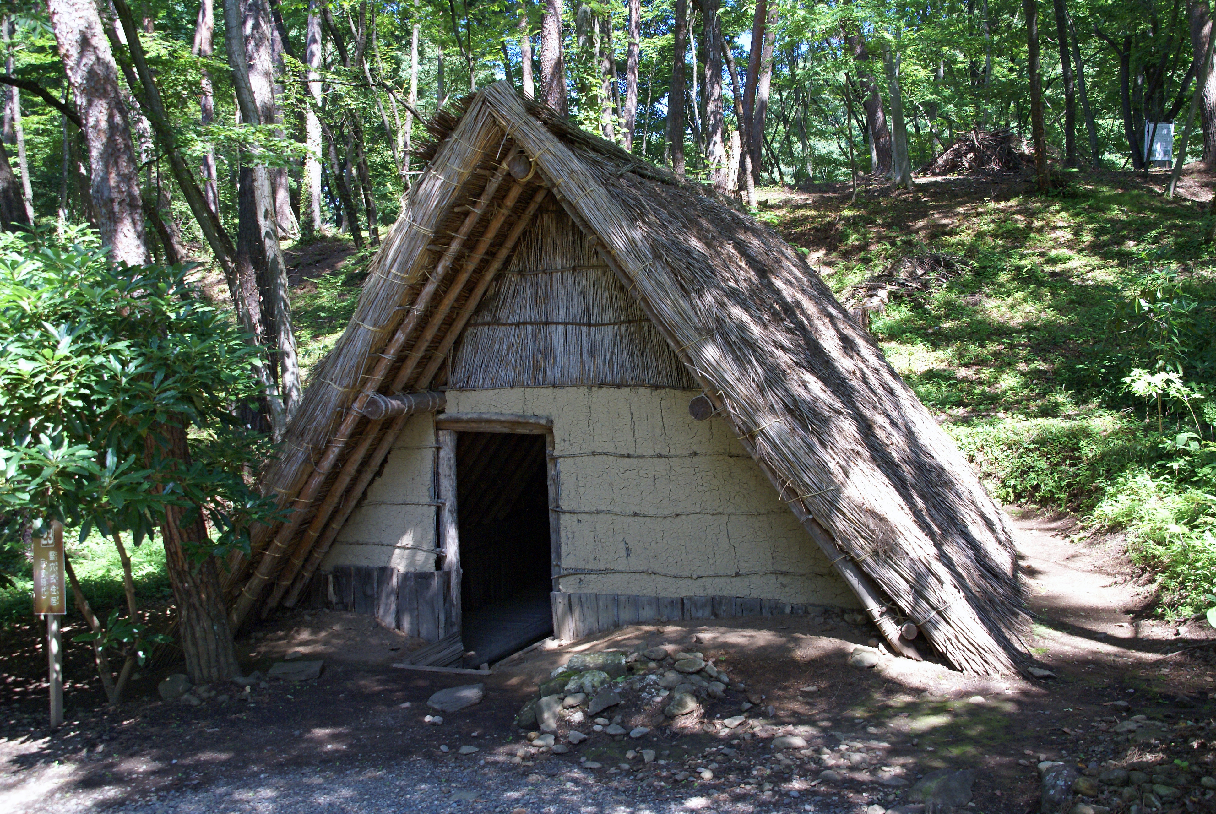 Michinoku Folk Village in Kitakami, Iwate prefecture, Japan